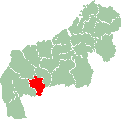 Location map of Ambatomainty region in Mahajanga province.